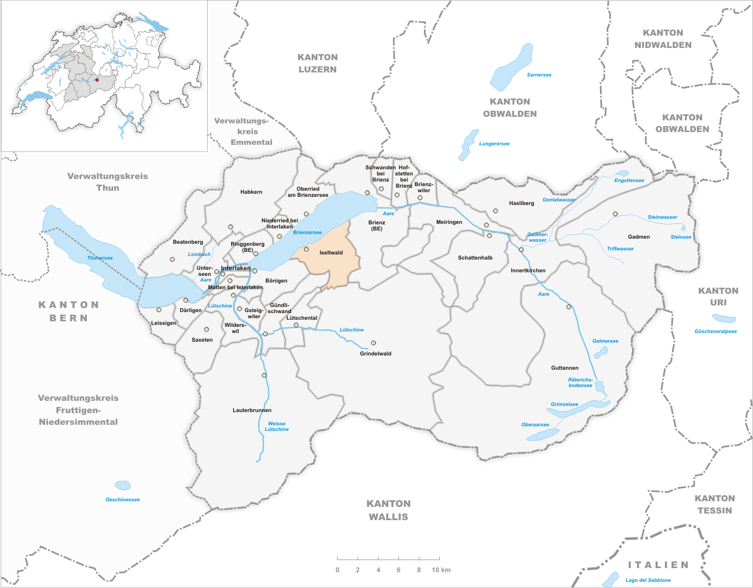 Municipality Iseltwald